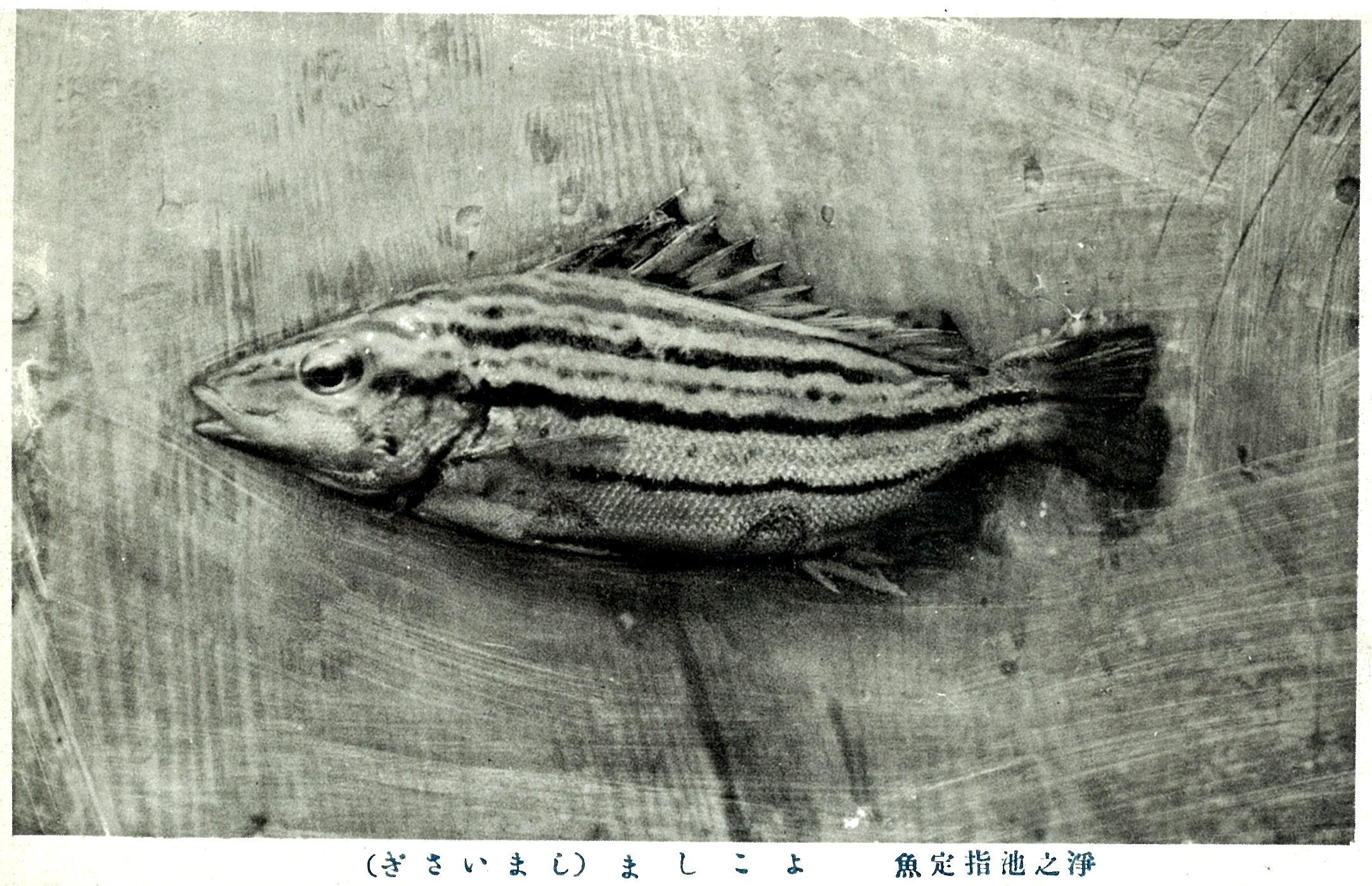 Jono-ike pond postcard. Rhynchopelates oxyrhynchus Old photographs